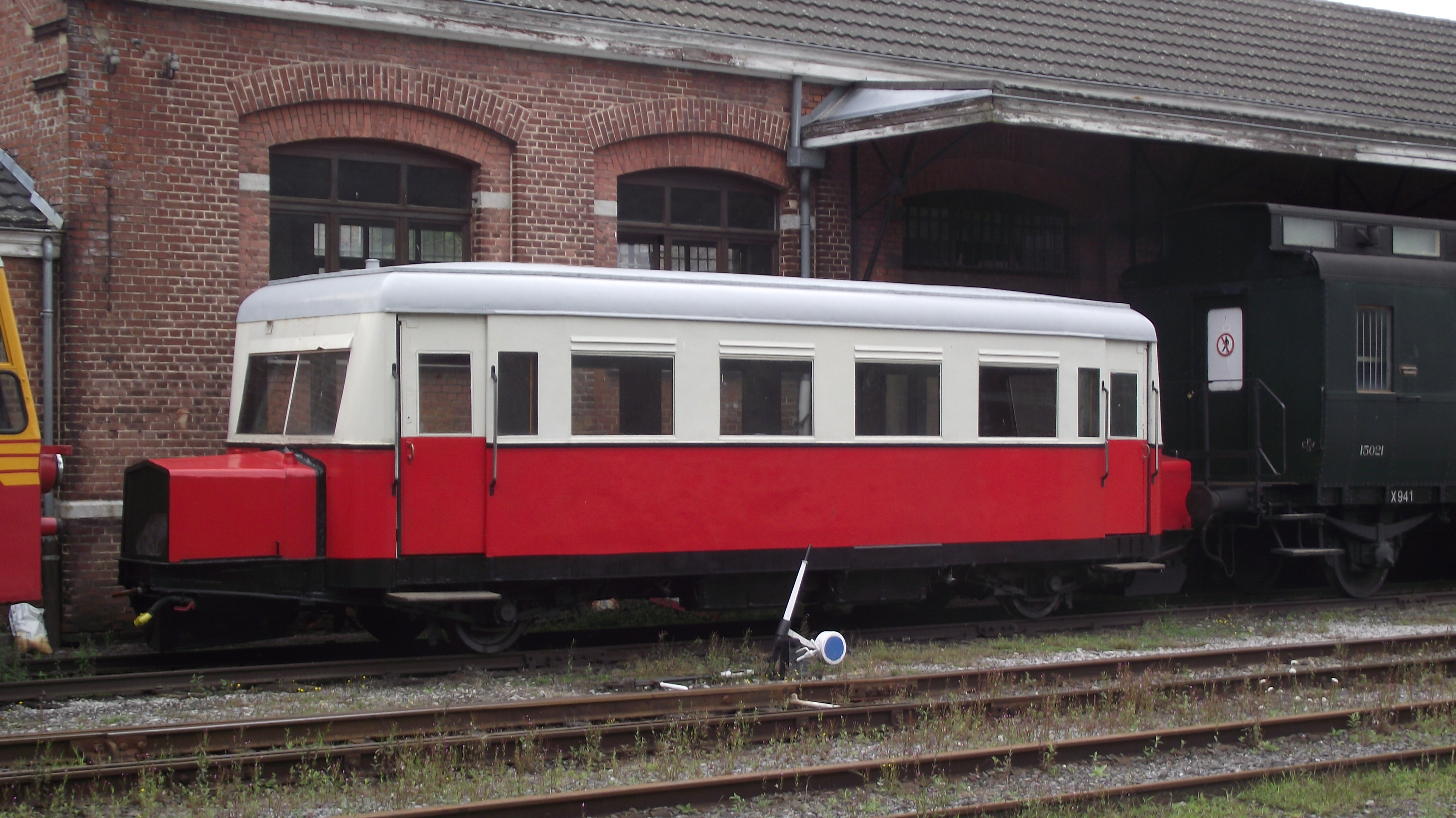 A Wismar railbus in Treignes by the CFV3V.